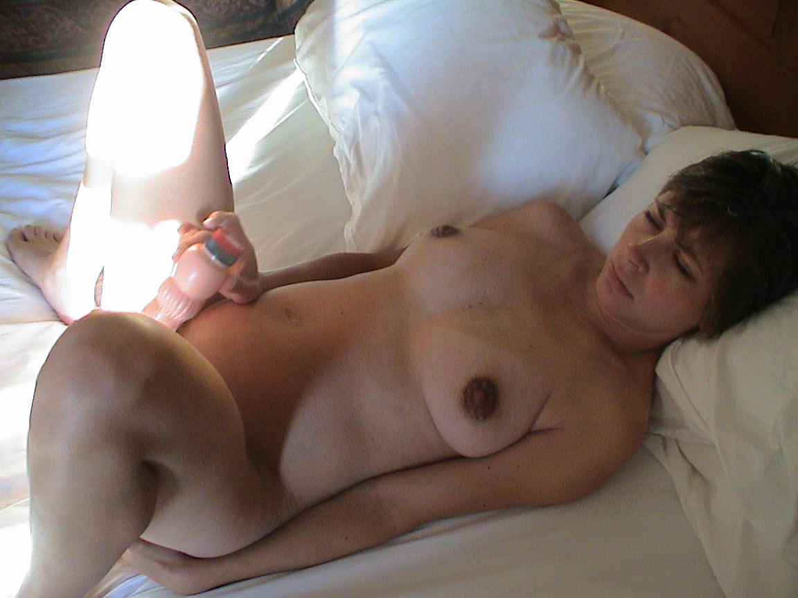 Nude woman masturbating with a vibrator.